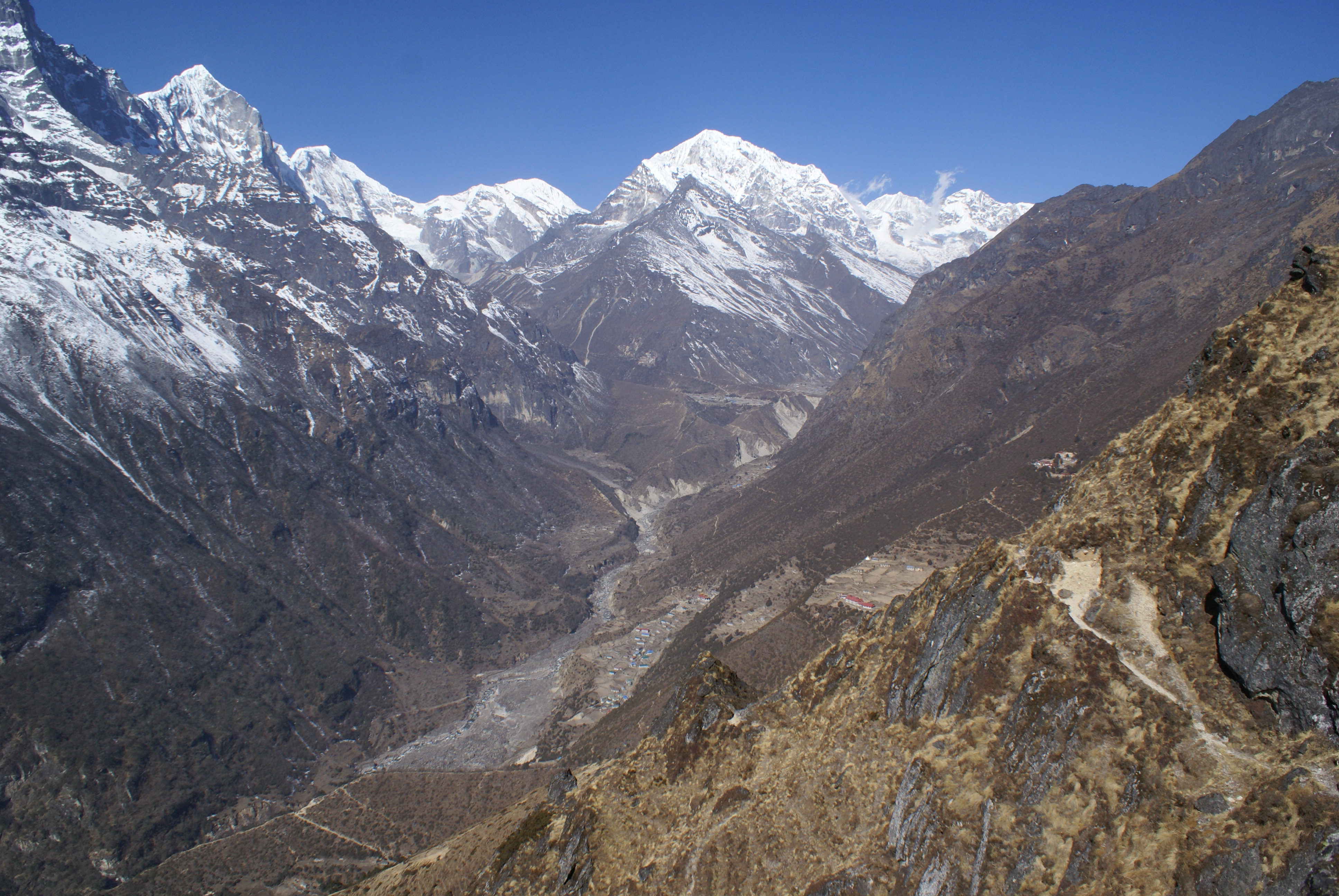 The valley of Bhote Koshi, Nepal.